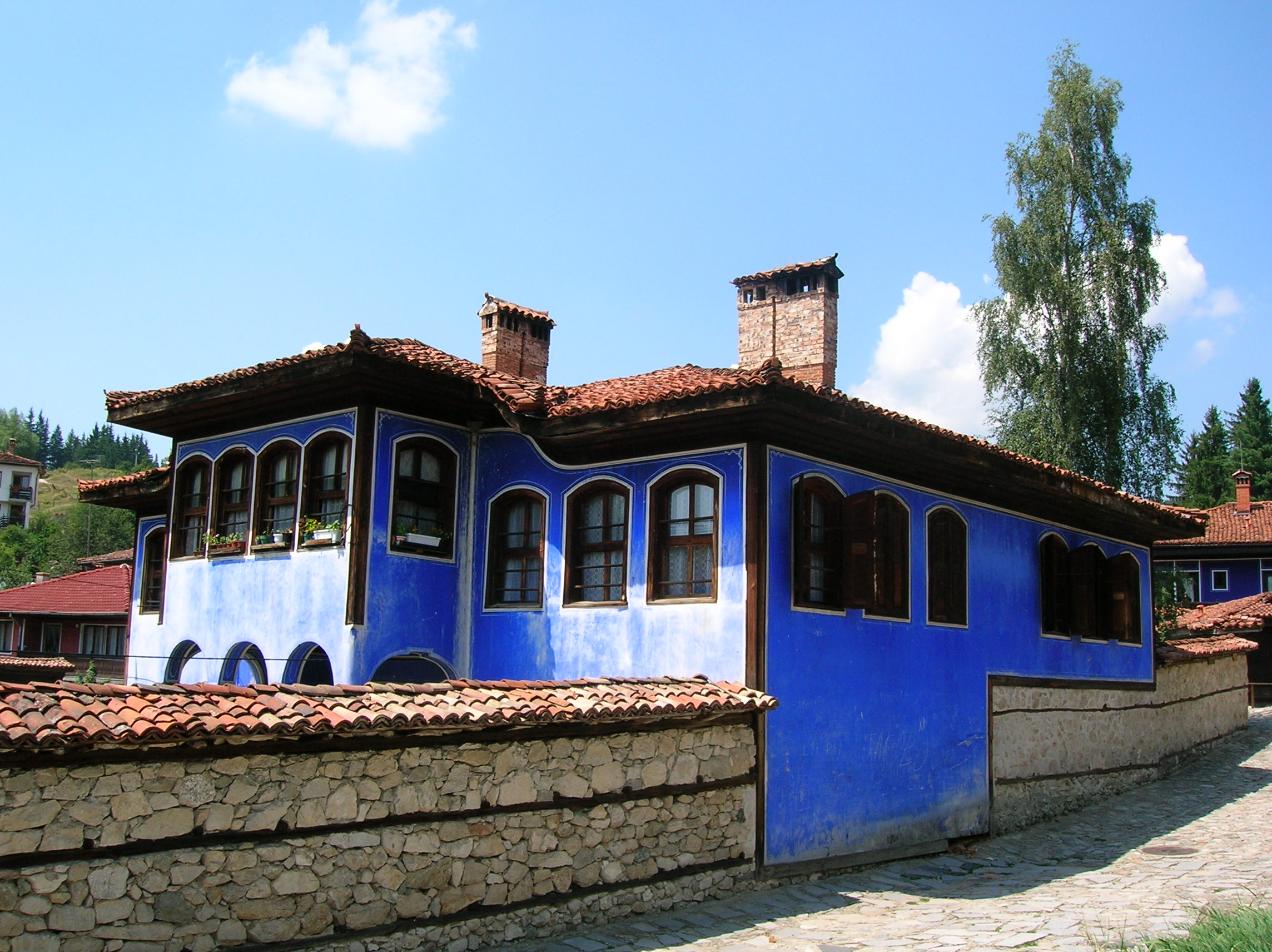 Kantardjiev's house in Koprivshtitsa (Bulgaria).